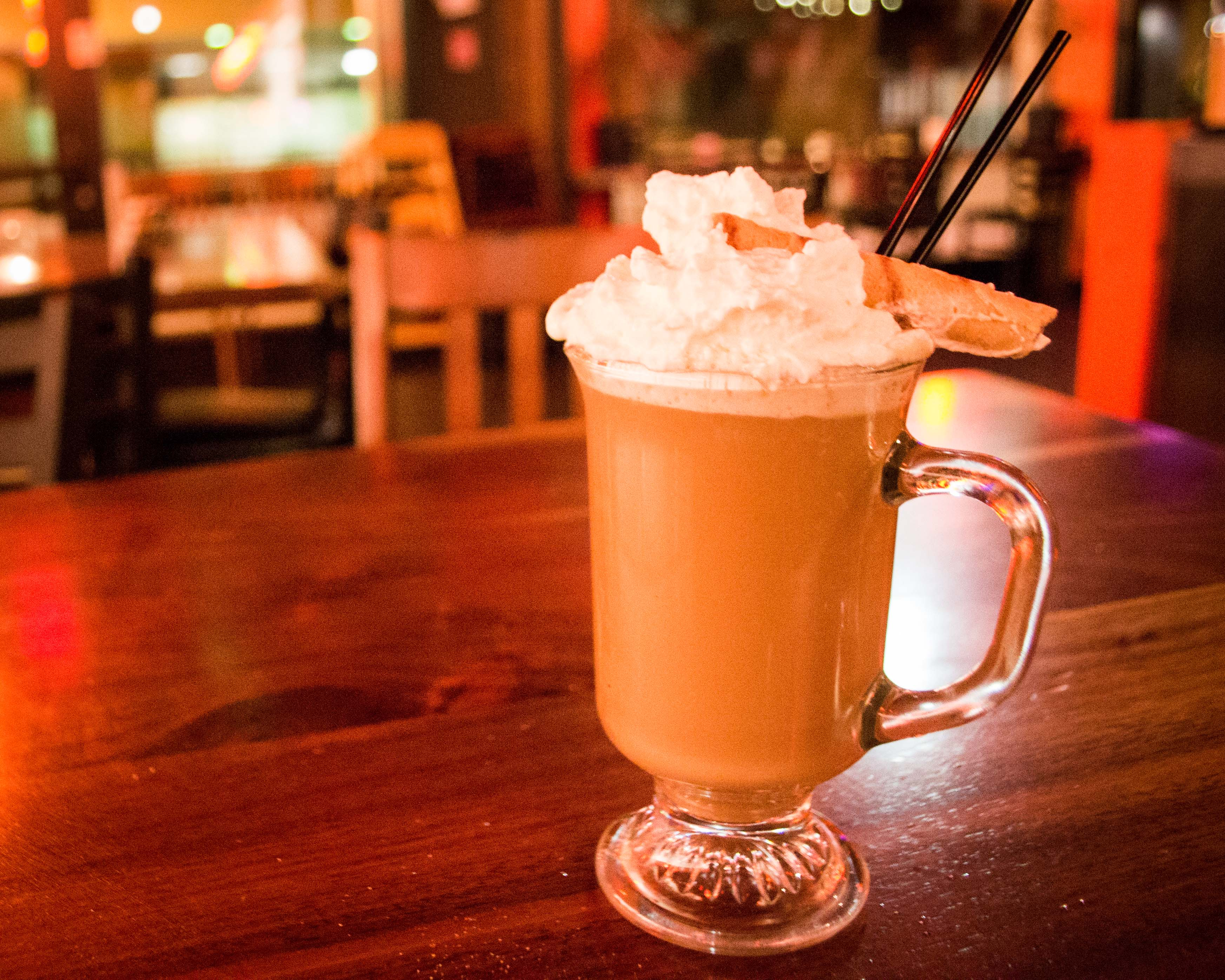 Irish coffee at Off the Waffle in Eugene, Oregon